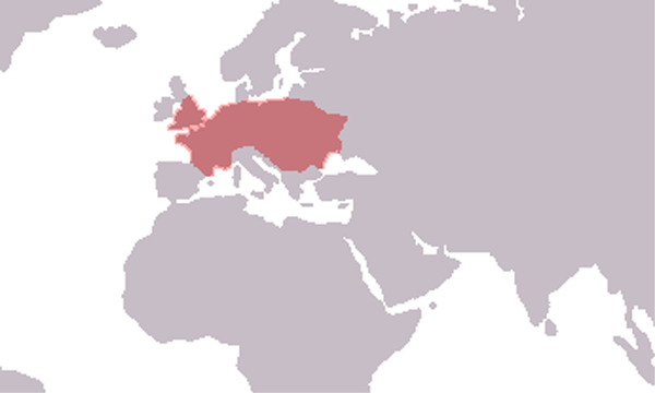 Barbus barbus distribution map.